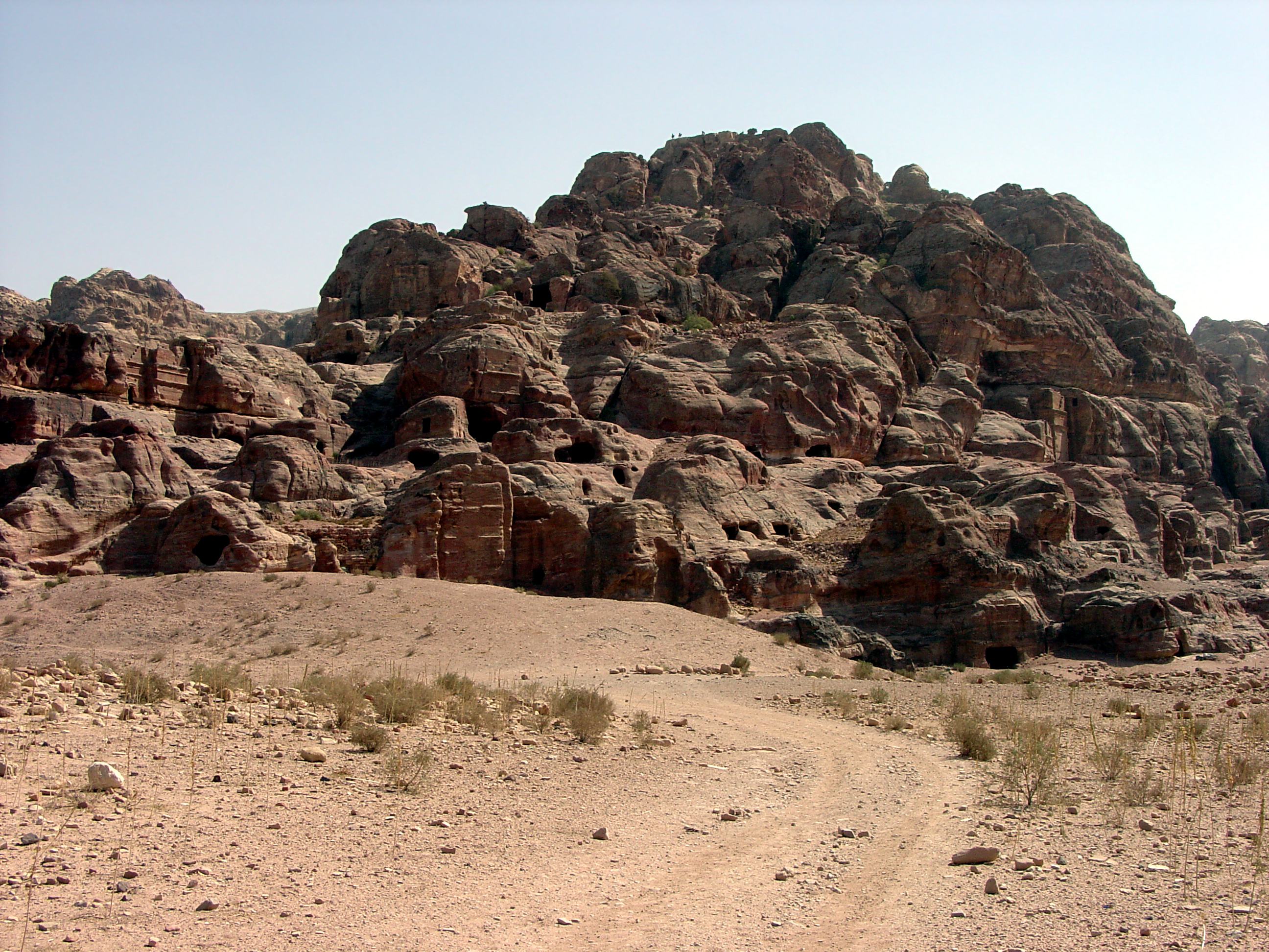 The road to the High Place begins near Qasr al-Bint. Proceeding east and south behind the Theatre, it runs along Wadi Farasa to the base of Jebel al-Madhbah and then climbs up to the High Place at the summit of the mountain.